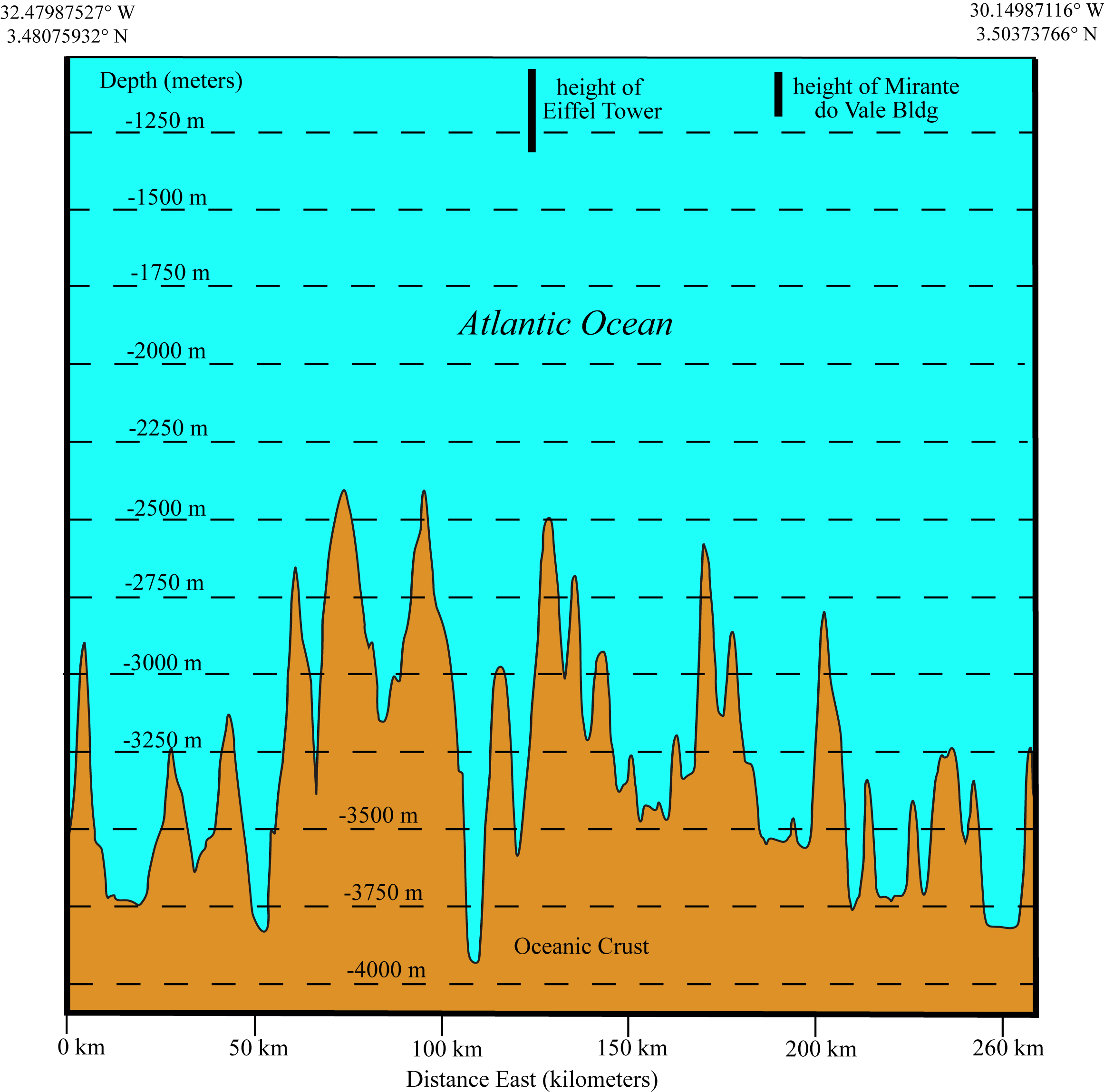 East-west bathymetric cross-section across of part of Atlantic Ocean in which Air France Flight 447 crashed. This cross-section was prepared from General Bathymetric Chart of the Oceans (GEBCO) compiled by the British Oceanographic Centre. The 30 arc-second gridded bathymetric data was downloaded from "Gridded bathymetric data sets" at Image was prepared using Global Mapper 8.0 and Adobe Illustrator CS2.